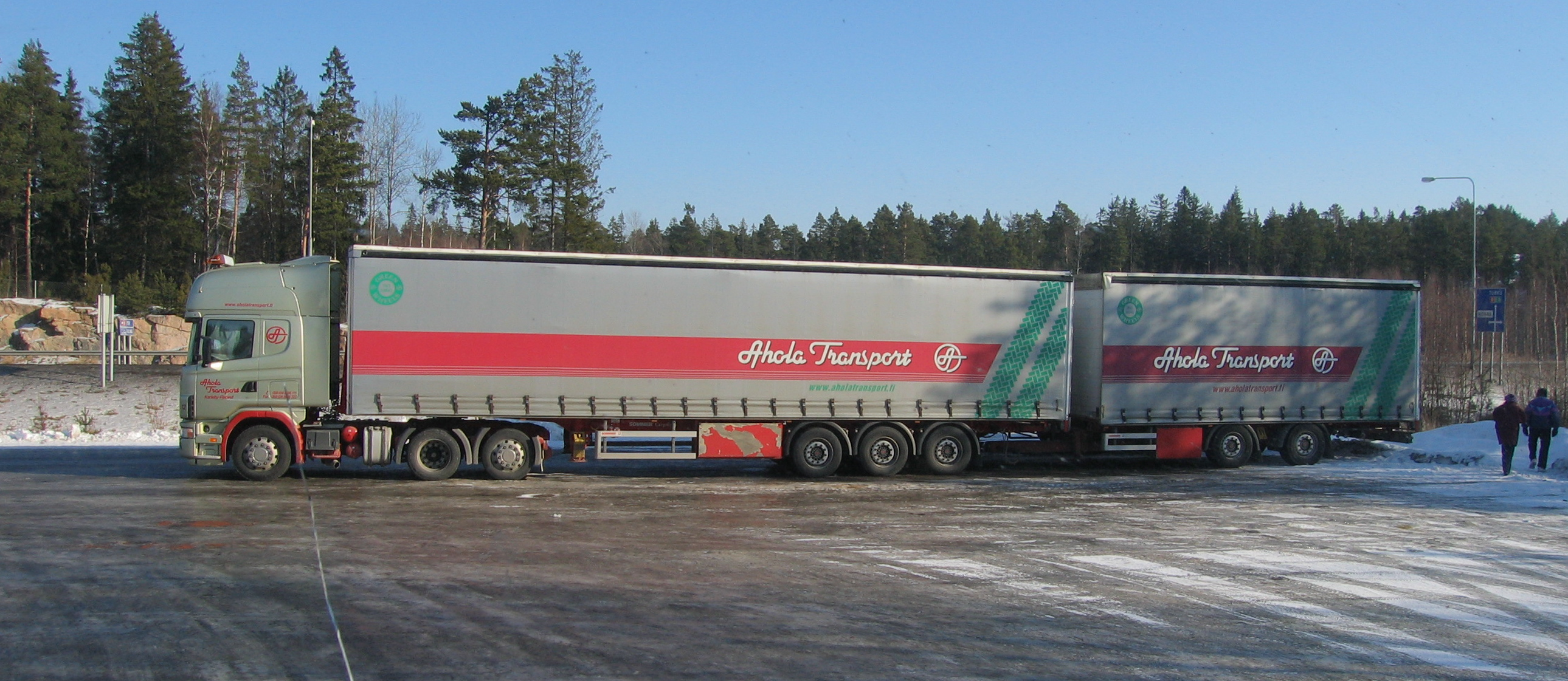 Finnish truck combination operated by Ahola Transport. Scania with sleeper cab is coupled to semi-trailer to which mid-axle-trailer is coupled. Photographed in icy truck stop in Rauma, Finland at 3rd March 2005. Scania truck has 6x2 drivetrain and it's last axle is liftable for extra grip and to reduce tyre weat when running empty.